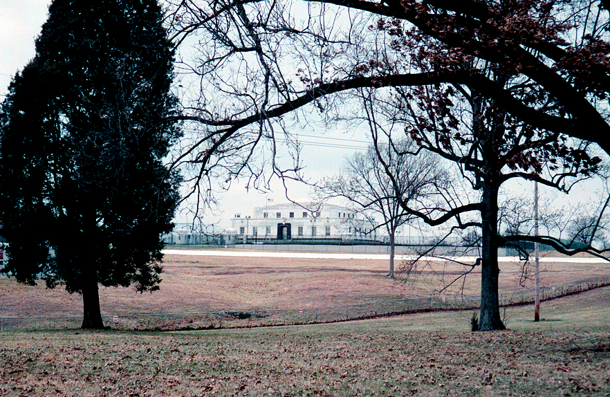 U.S. Bullion Depository (Gold Vault) at Ft. Knox, KY, USA.